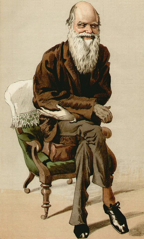 Caricature of Charles Darwin. Caption read "Natural Selection".